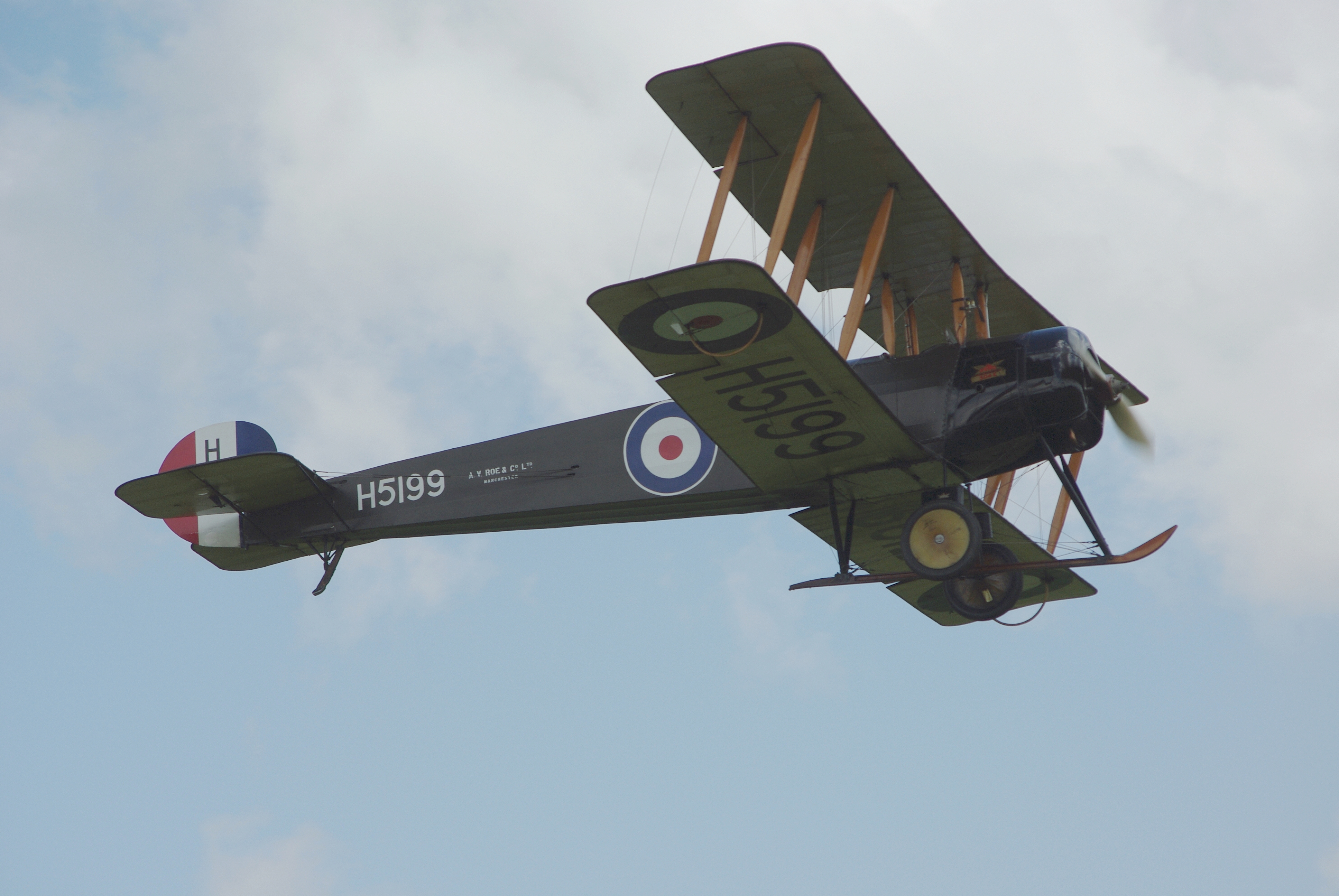 The Shuttleworth Collection's Avro 504K at old Warden's Summer Show 2009.